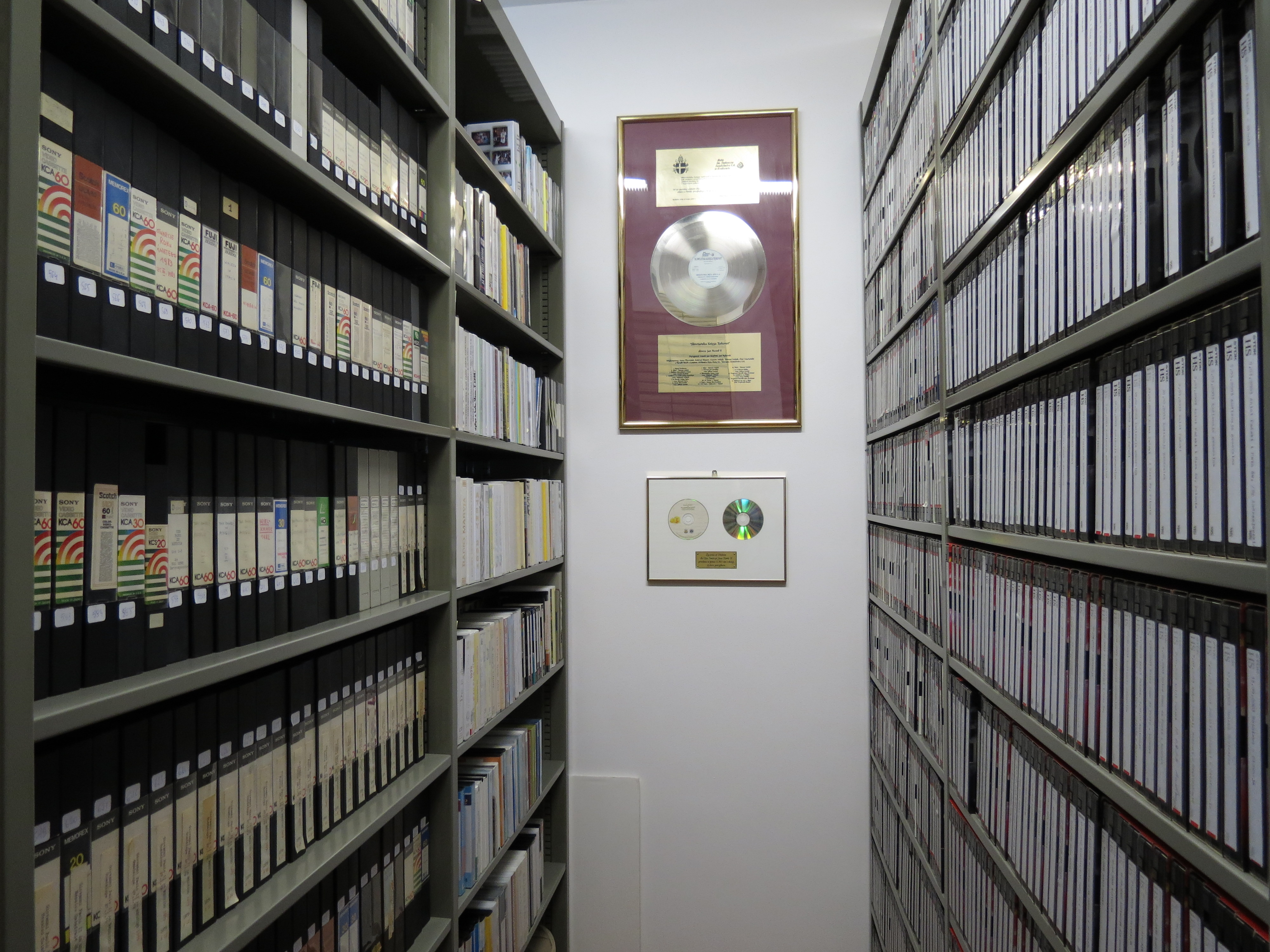 The John Paul II Pontificate’s Center for Documentation and Research in Rome